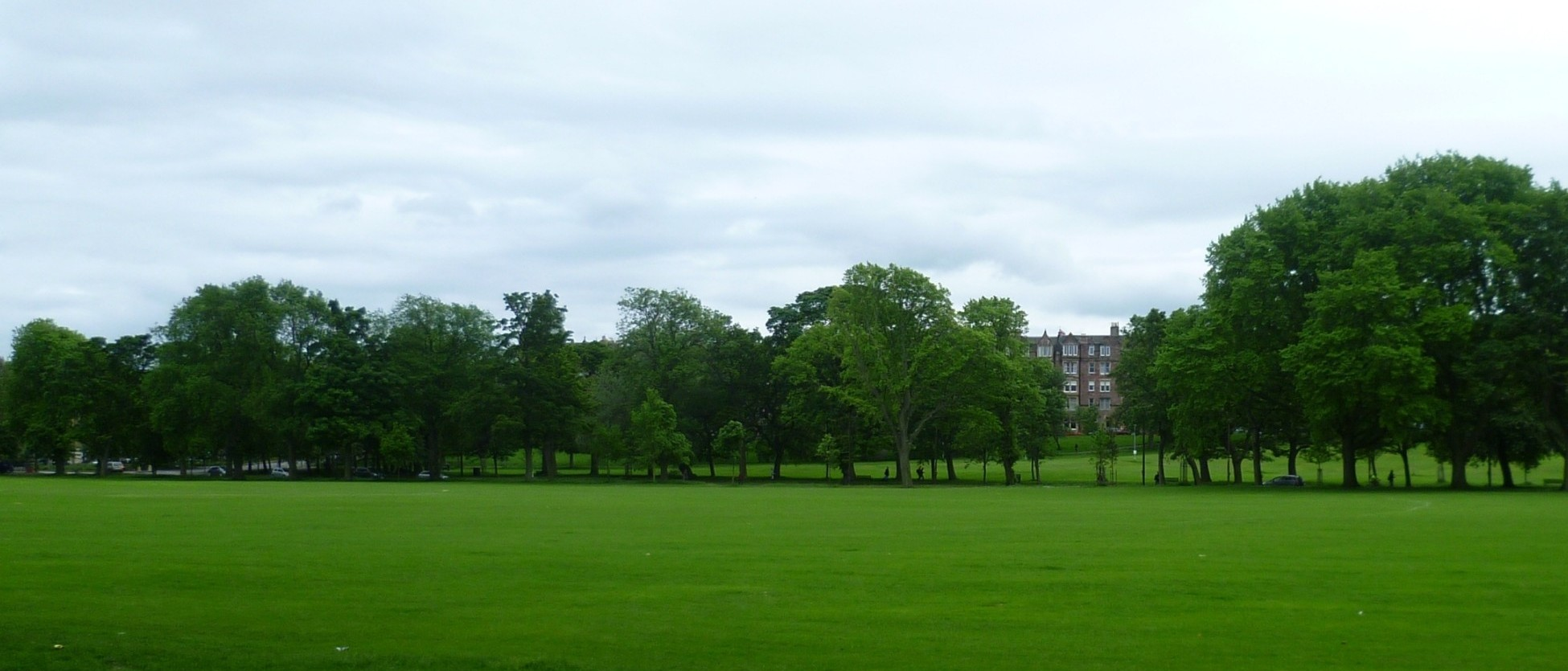 Melville Drive, a tree-lined avenue named after a former Lord Provost of the city, Sir John Melville (1854-59), runs through the Meadows.